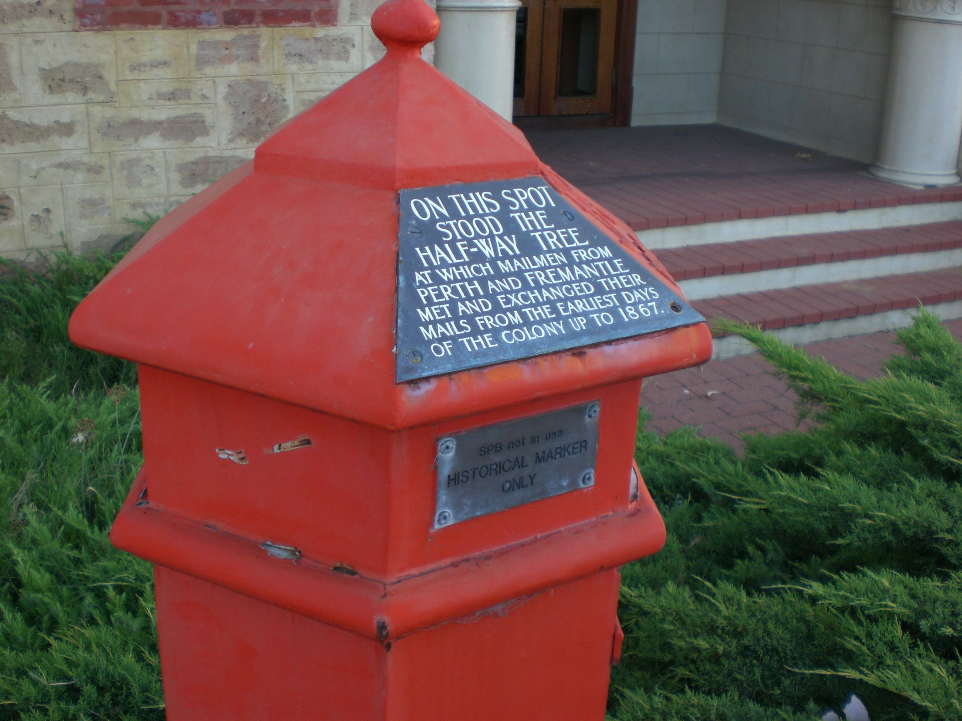 Image of the site of the halfway tree, one of two historical markers, some 100 metres apart, but bearing the same inscription. This one is on a post box, the text states: ON THIS SPOT STOOD THE HALF-WAY TREE AT WHICH MAILMEN FROM PERTH AND FREMANTLE MET AND EXCHANGED THEIR MAILS FROM THE EARLIEST DAYS OF THE COLONY UP TO 1867. and another plaque stating: SPB not in use. HISTORICAL MARKER ONLY